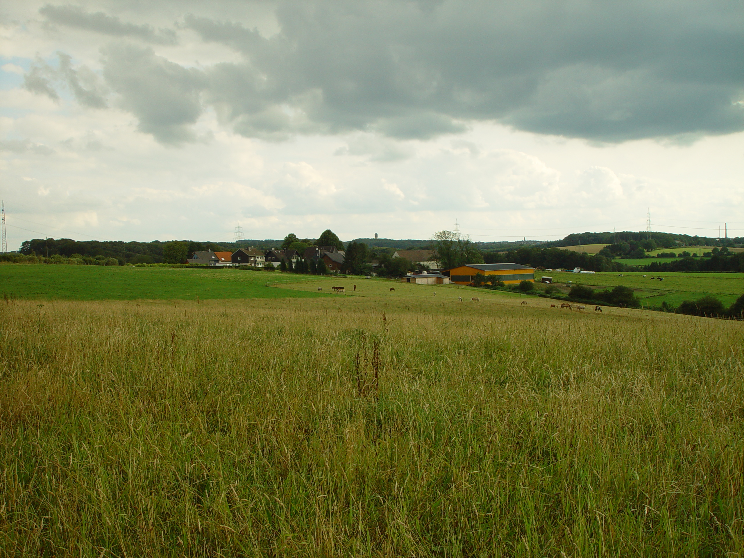 View at Wefelpütt in Wuppertal